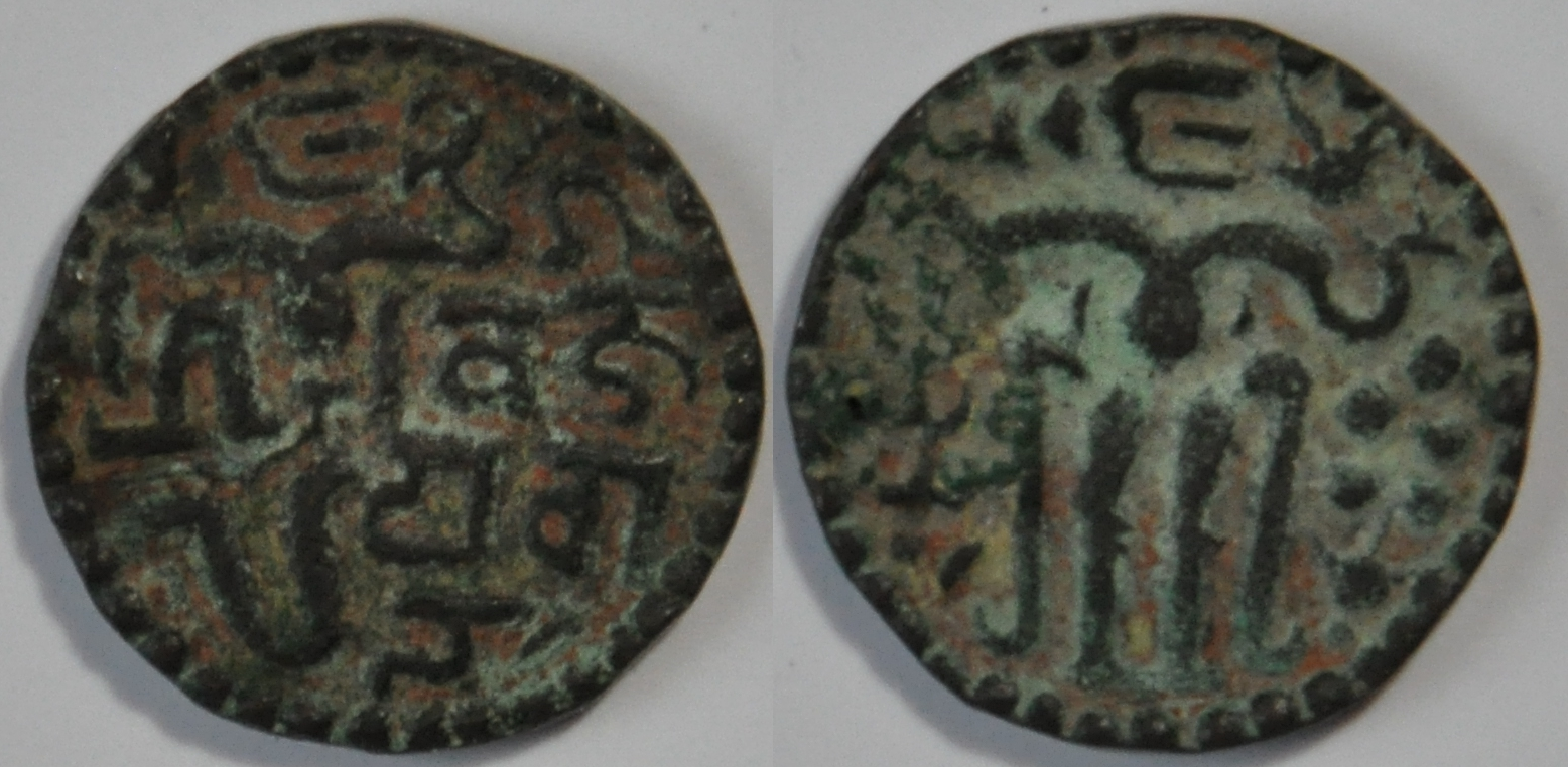 A Copper Massa coin of King Vijayabahu IV (1271 - 1273) of Sri Lanka.